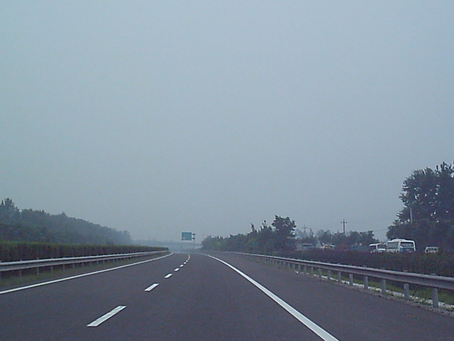 Jingkai Expressway - Southern Beijing section.